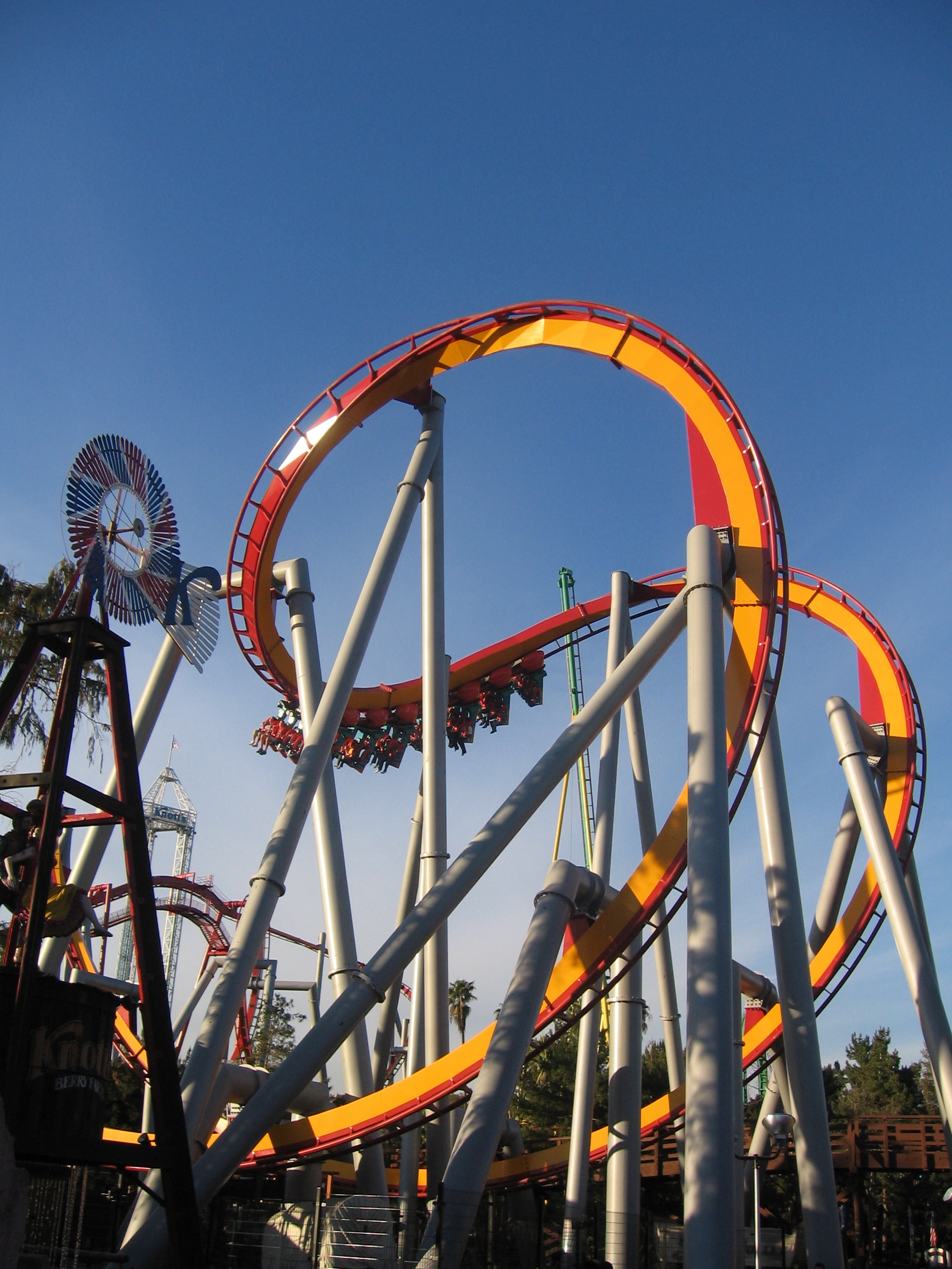 The Silver Bullet in Knott's Berry Farm. The coaster build by Bolliger & Mabillard opened in 2004.